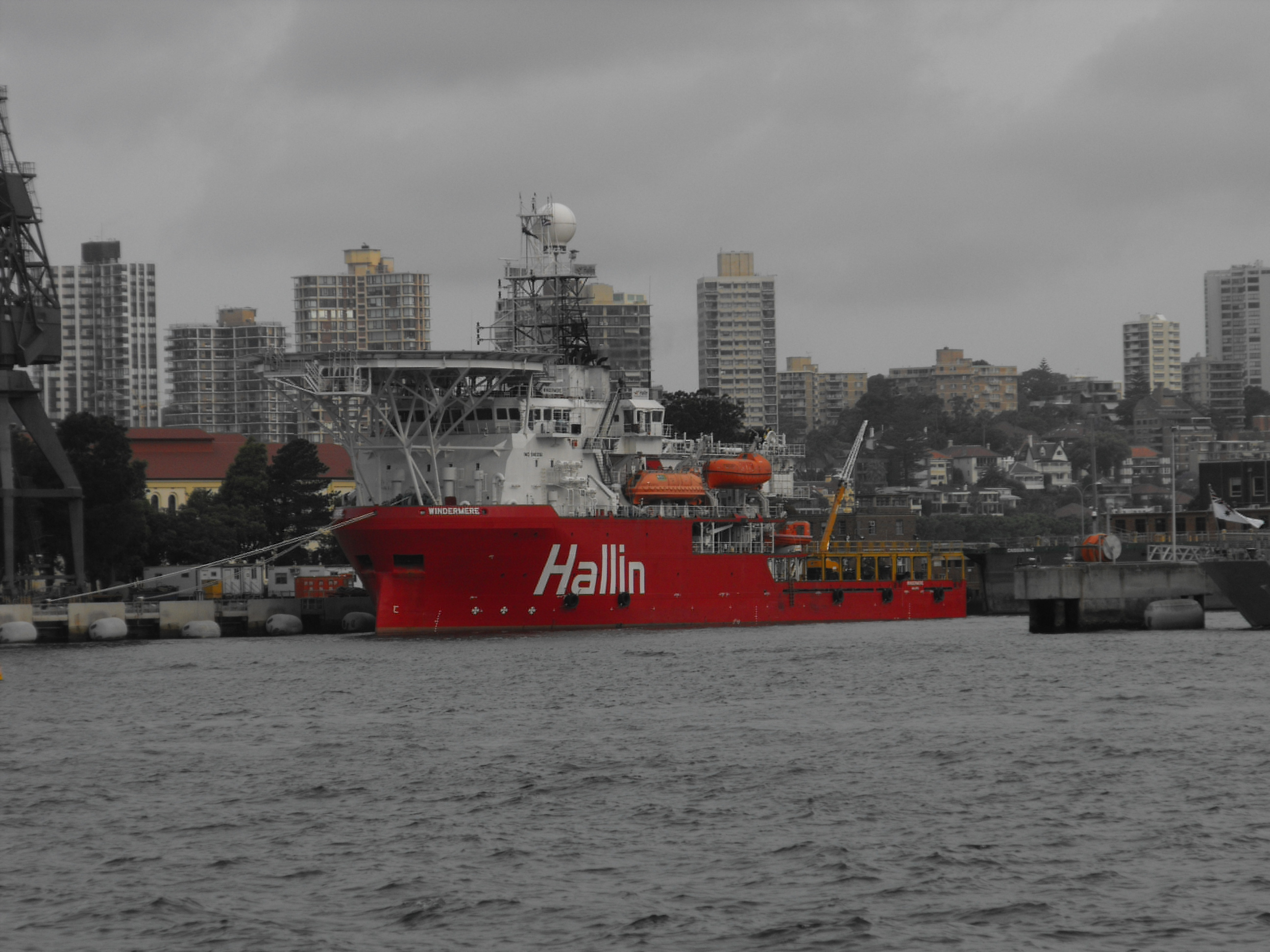 The Hallin Marine subsea operations vessel SOV Windemere, docked at Fleet Base East during her 2011 chartering by the Royal Australian Navy